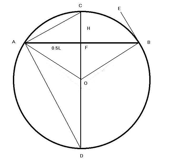 Flatness of arch bridge